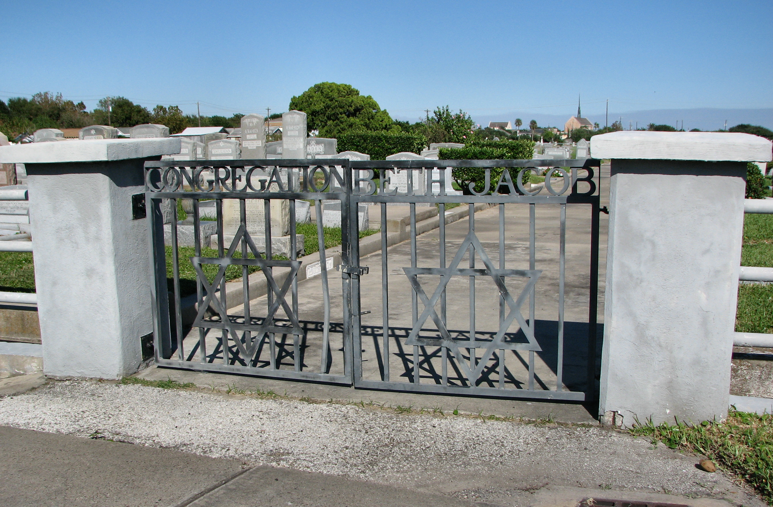 Beth Jacob cemetery. Galveston, Texas, USA. Photo taken by myself. Nsaum75 00:29, 26 October 2007 (UTC)